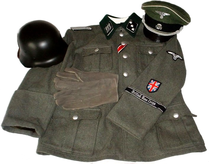 The Lord Of Boothferry's Waffen-SS British Free Corps Impression.